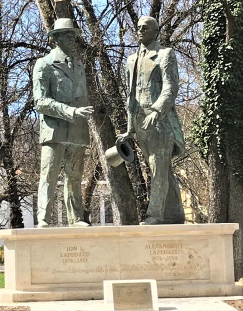 Double Monument Lapedatu Twins, Brașov, Romania, 20200419